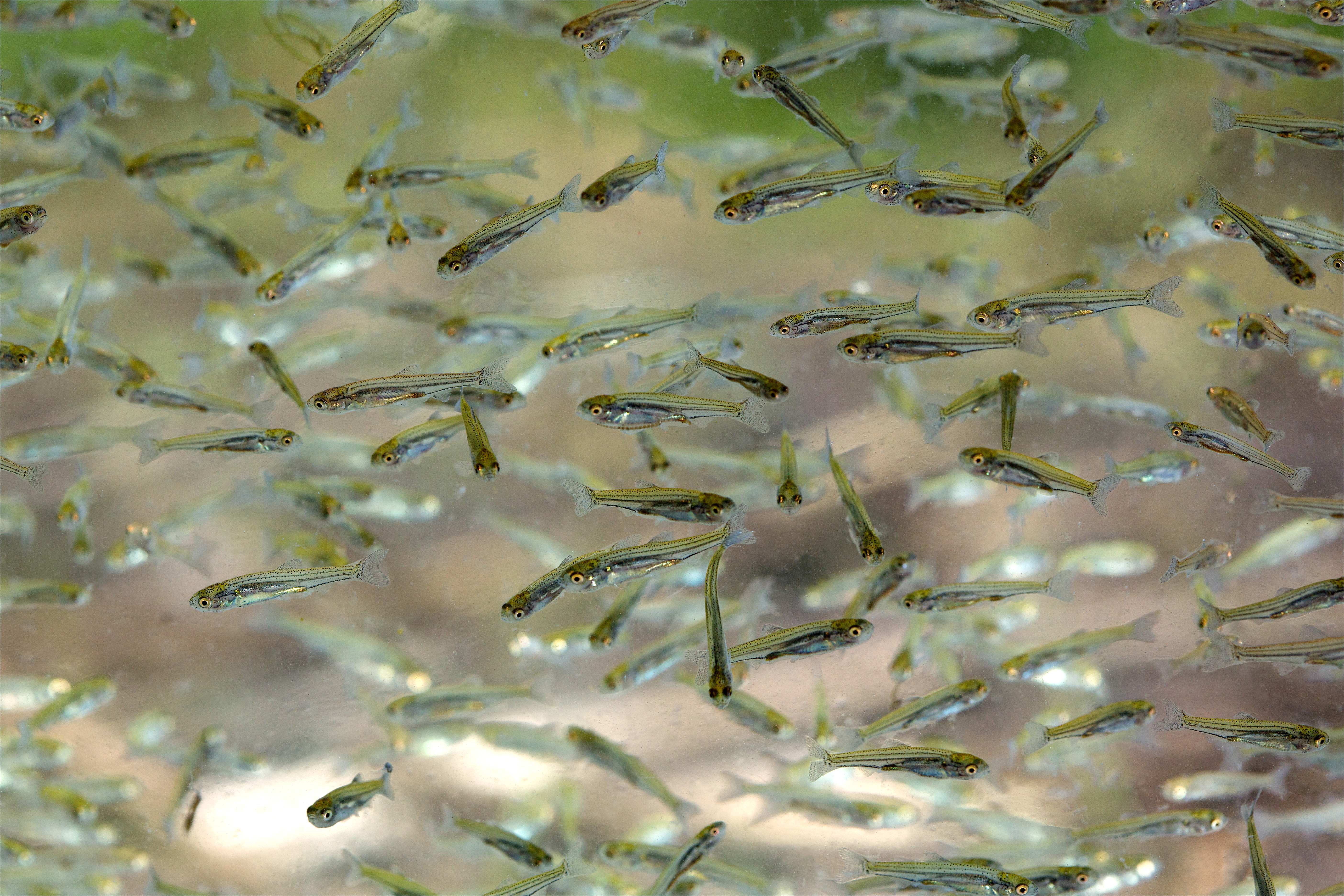 Young Rutilus rutilus in Lake Peipsi, Estonia.